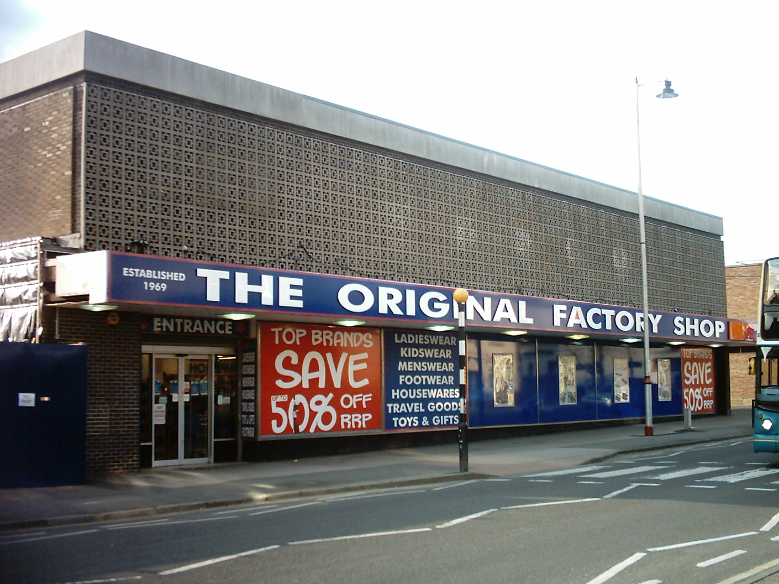 The Original Factory Shop on Main Street, Garforth, West Yorkshire. The photograph was taken on the afternoon of 1st April 2009.